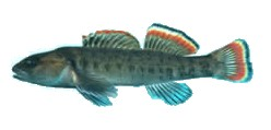 Etheostoma etowahae USFWS image